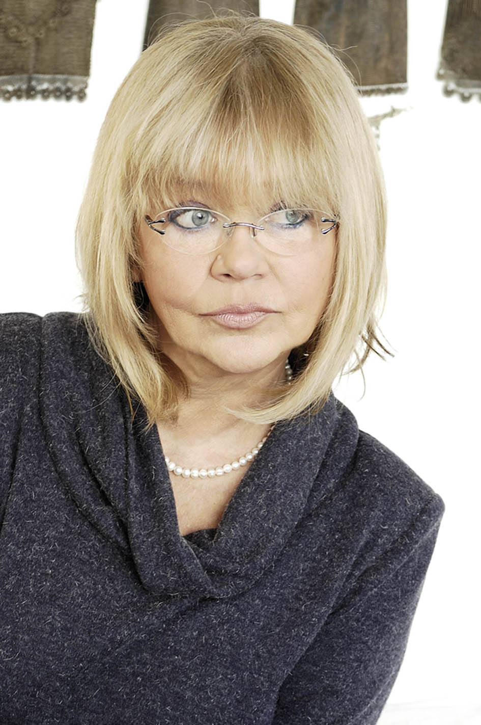 Wanda Szyksznian.